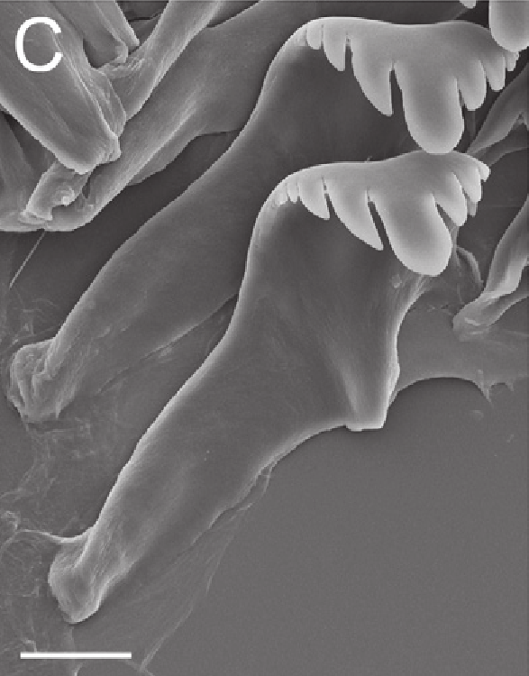 Radula of Marstonia comalensis, USNM 874926. Lateral teeth. Scale bar is 10 μm.